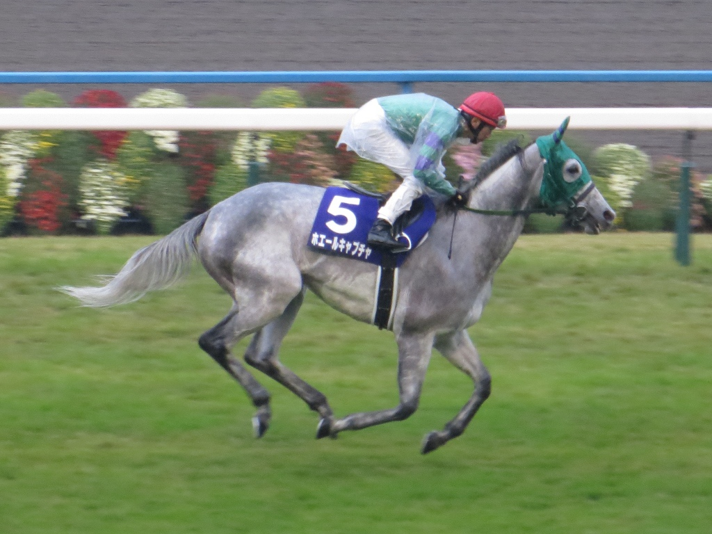 Whale Capture (Racehorse of Japan).